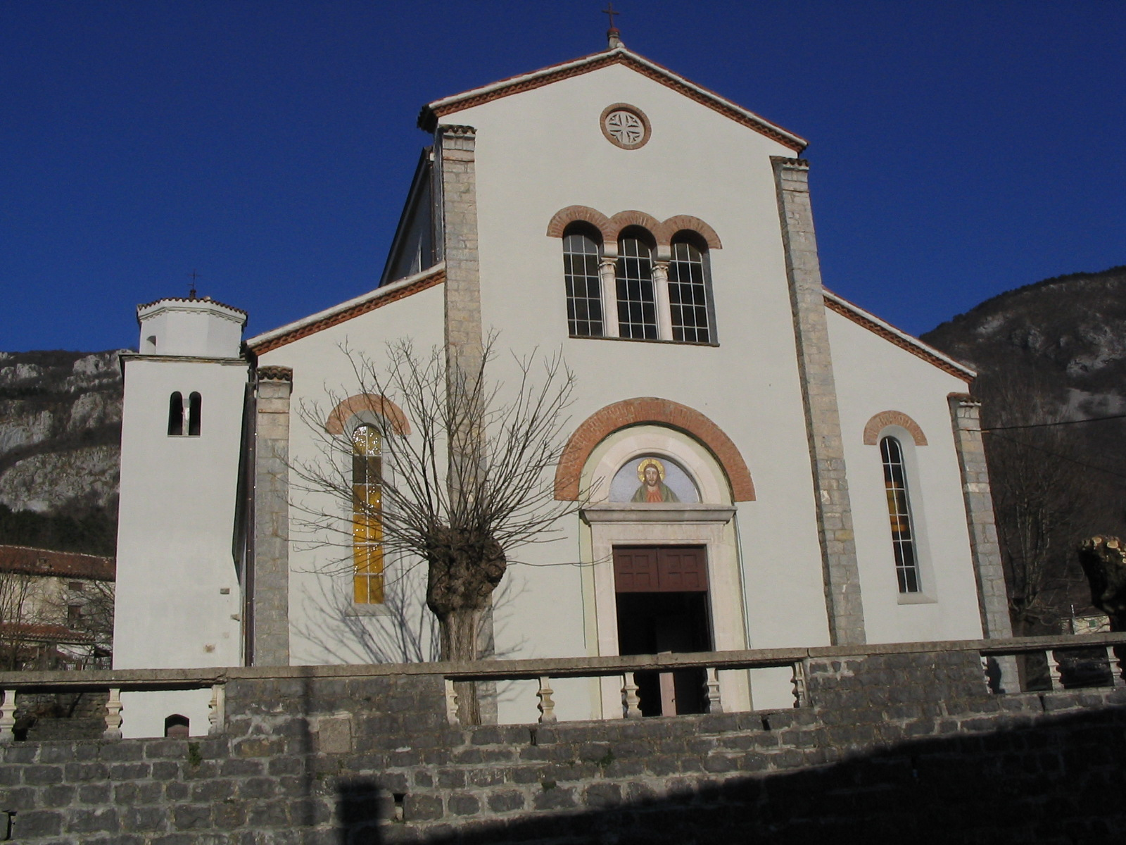 Church in Lanišće, Istria, Croatia